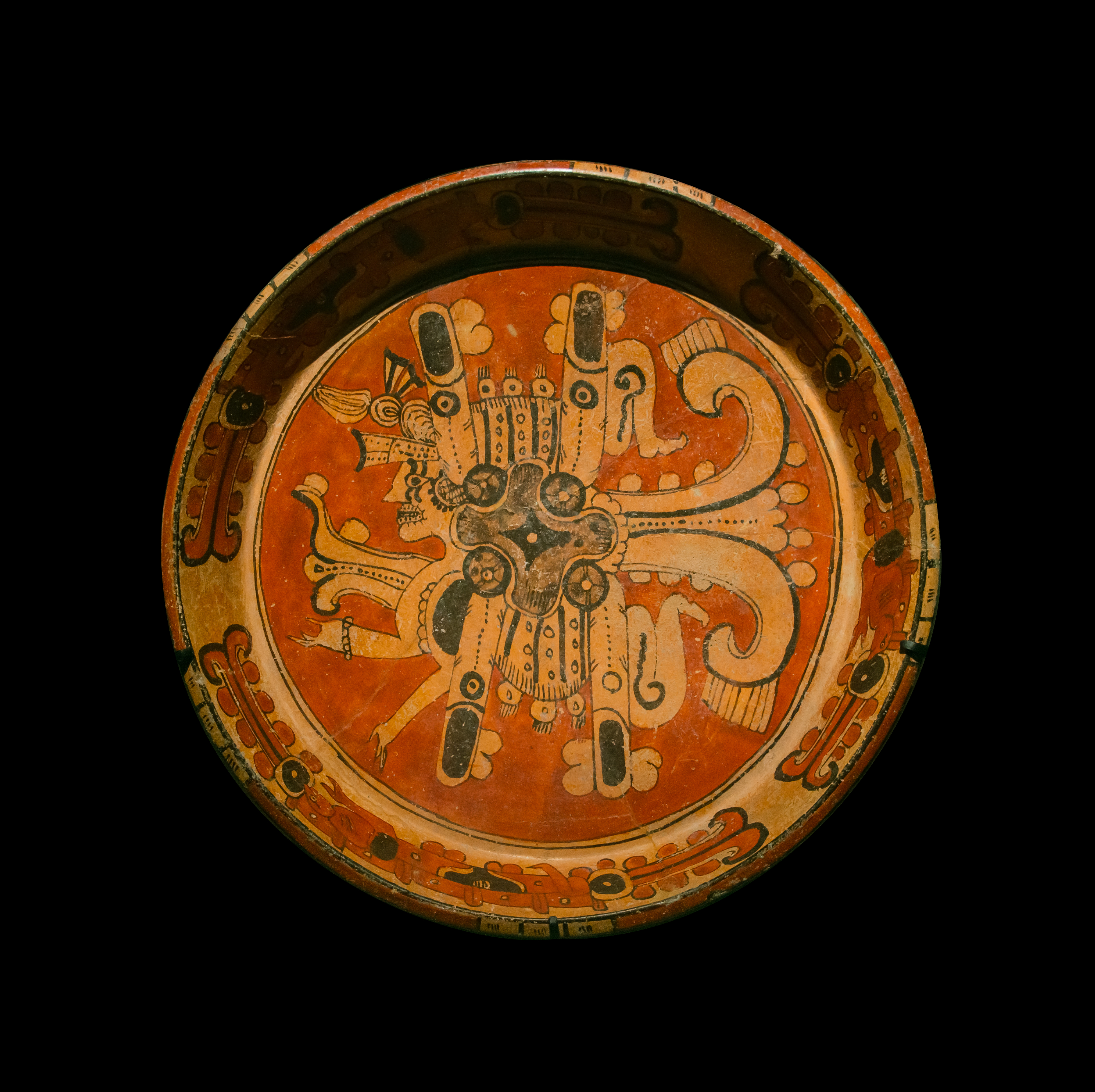 Maya plate, representing the planet Venus. Ceramics, Classic recent era (600 - 900 C.E.). From museo Regional de antropologia of the Canton palace, Mérida, Yucatan, Mexico. On display in "Maya" temporary exhibition in Musée du Quai Branly in Paris.